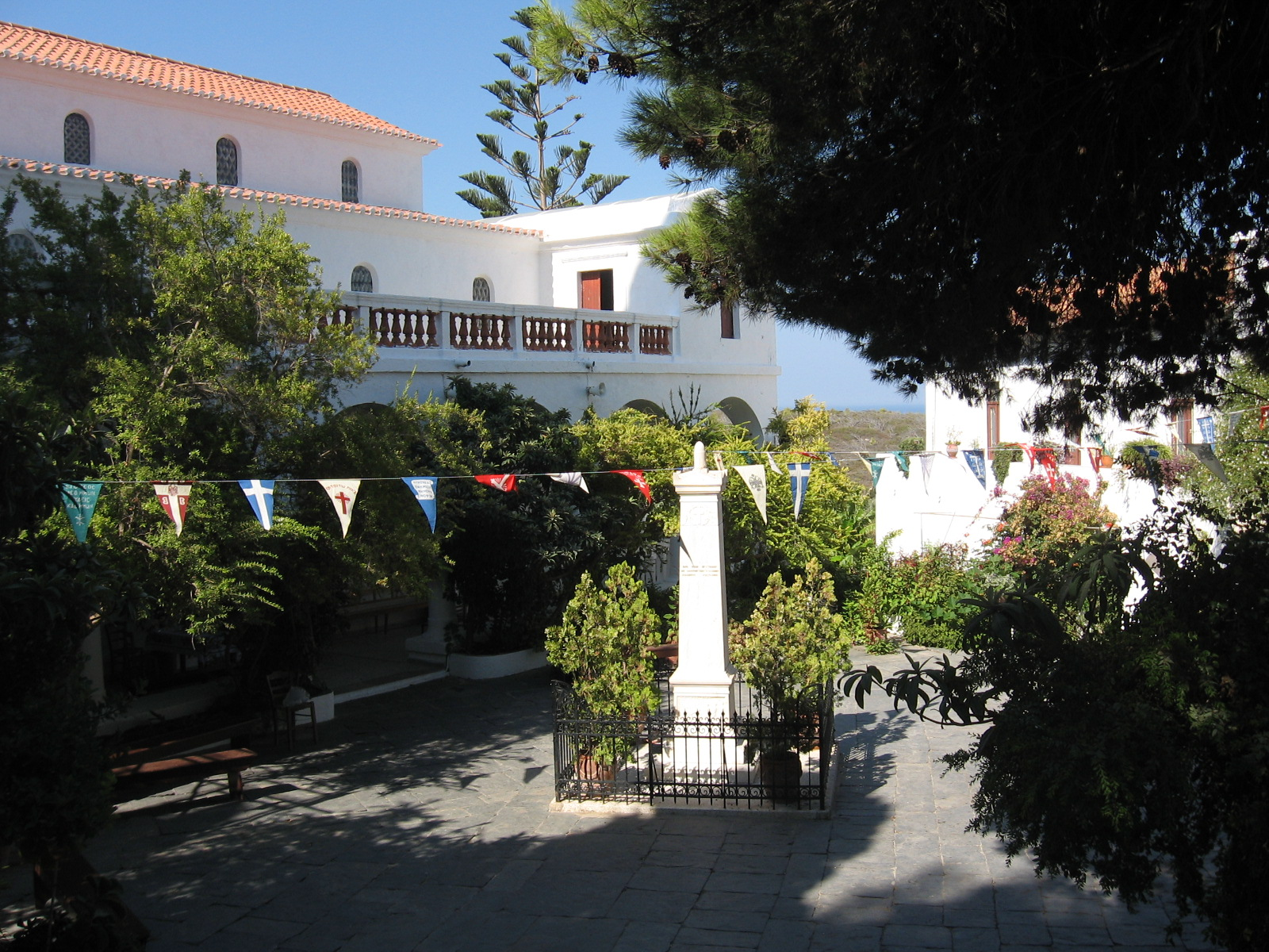 Panagia Mertidiotisa